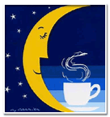 Label Clair de Lune